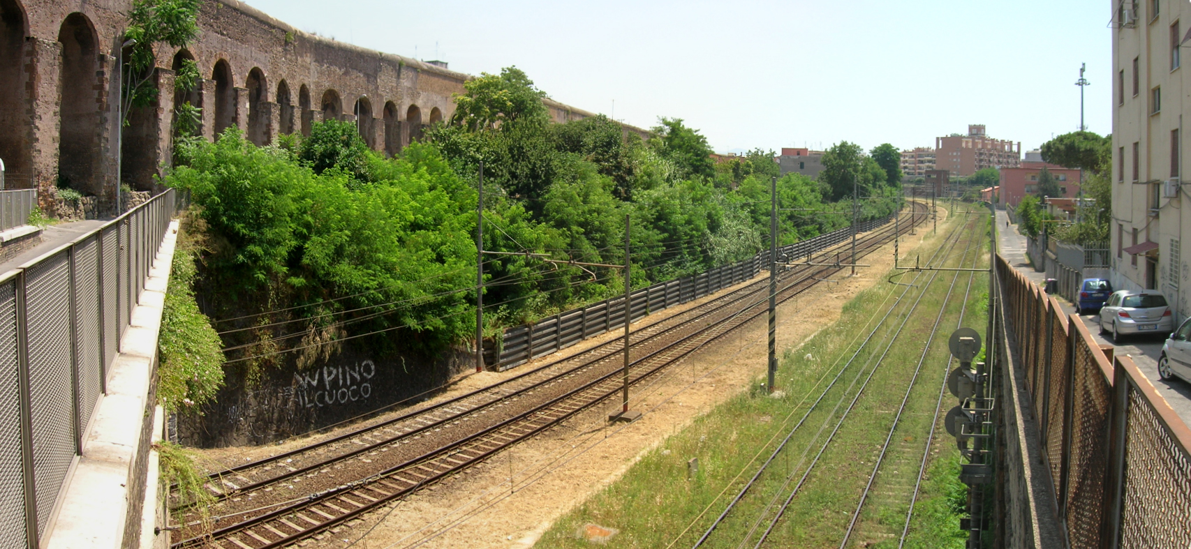 Acquedotto Felice in Rome, via del Mandrione